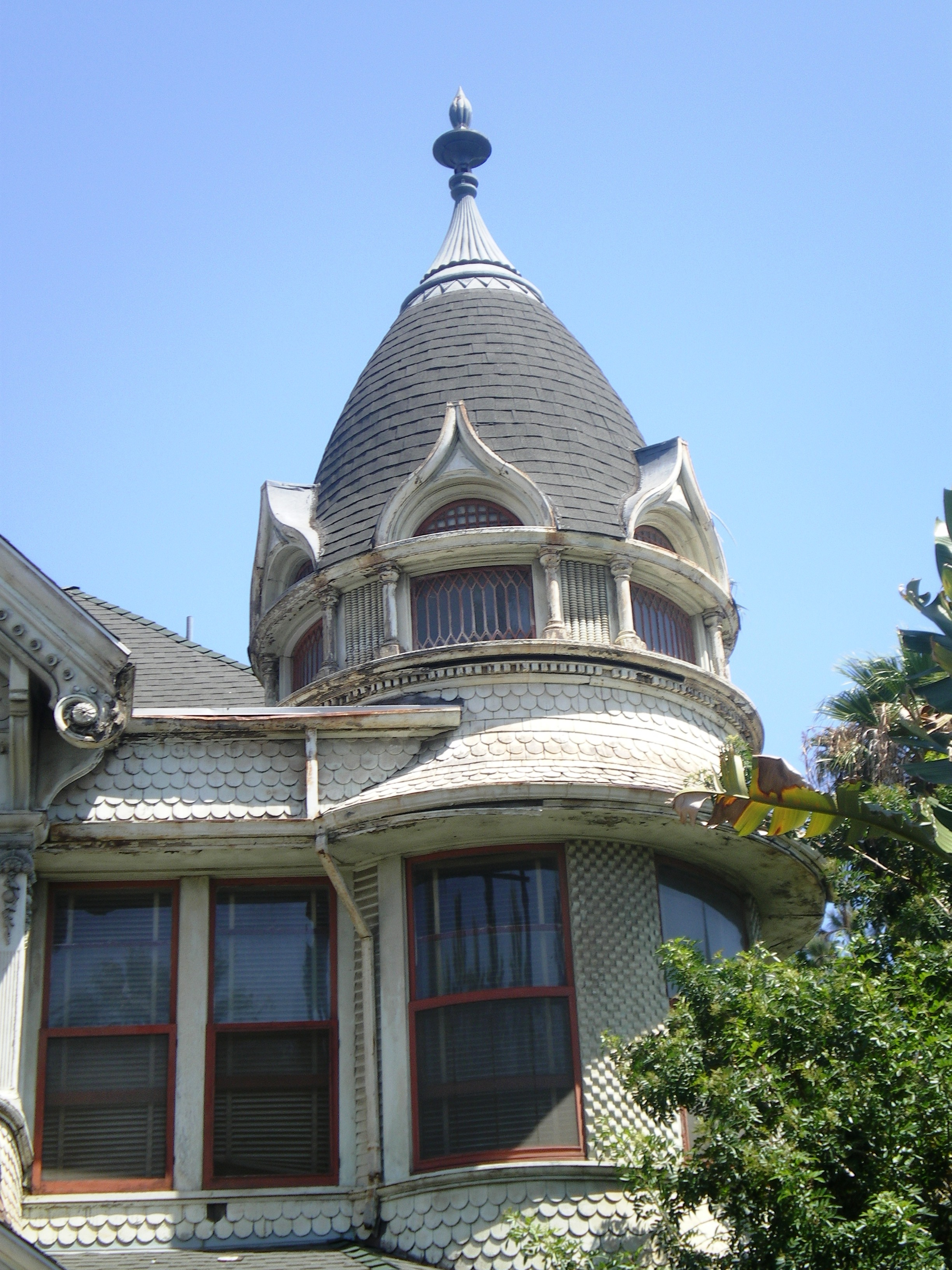 Dome on Frederick Mitchell Mooers House, 818 S. Bonnie Brae St., Los Angeles, California (LA Cultural Heritage Monument No. 45)